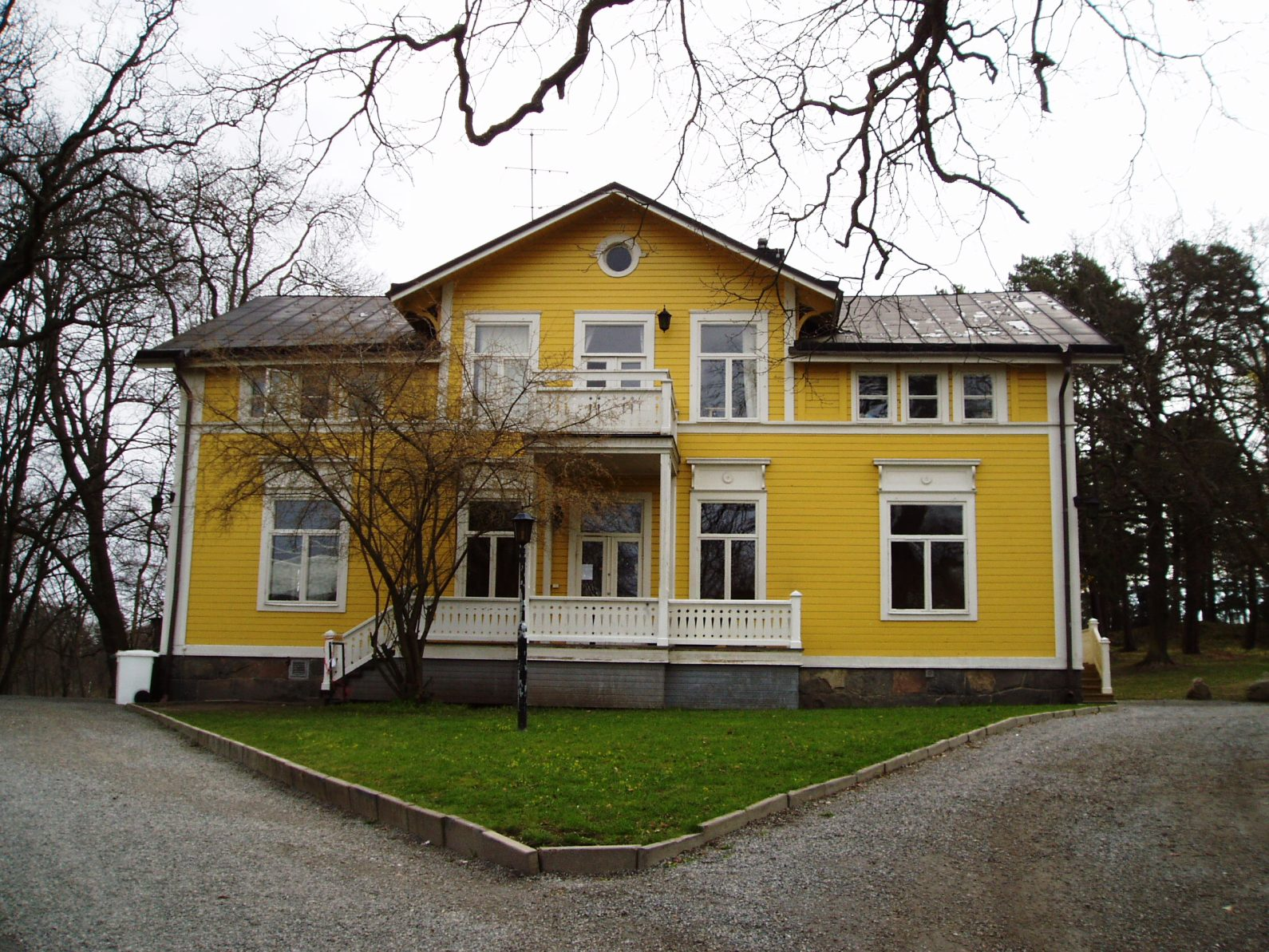 Gula Villan, Frescati, University Stockholm